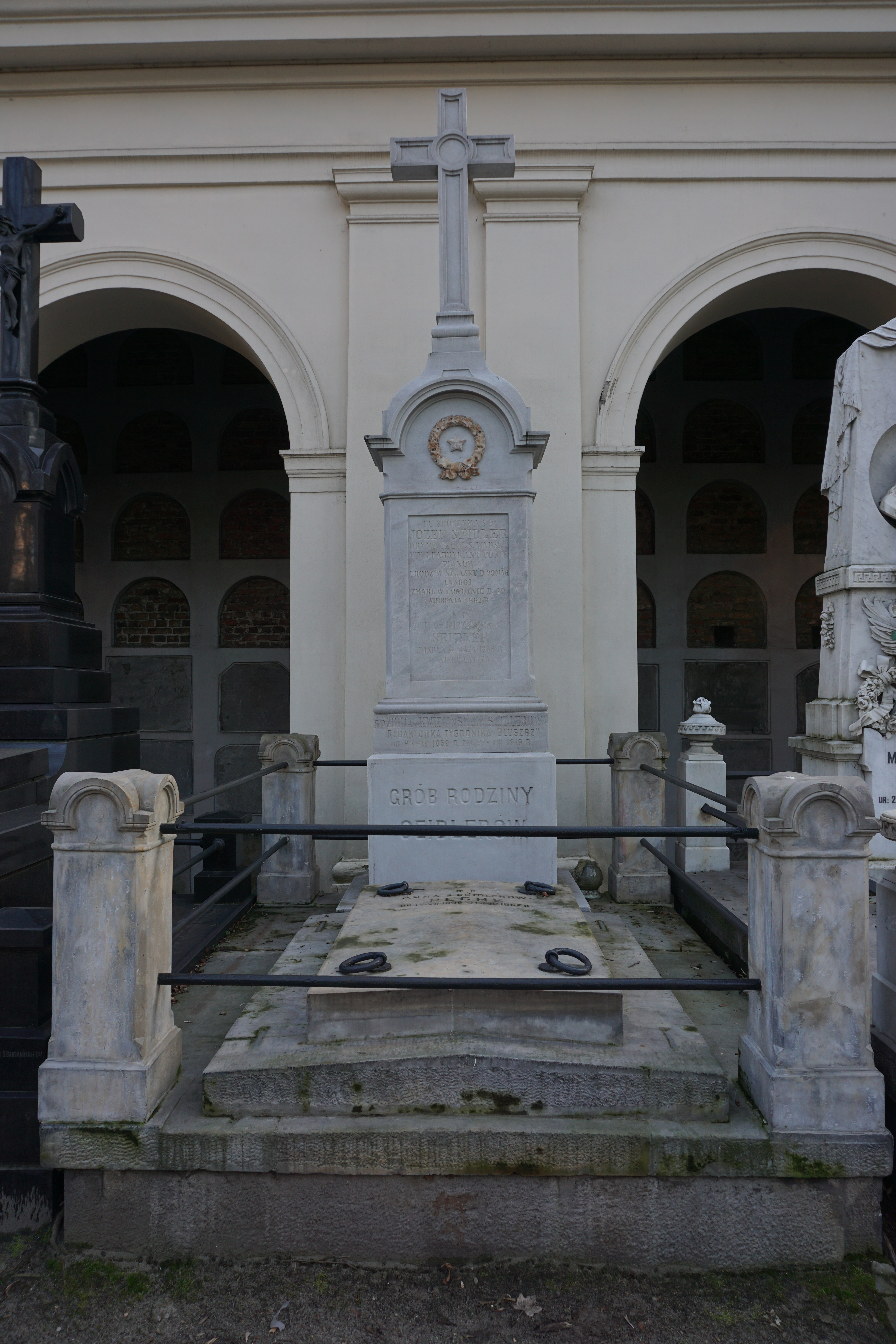 The grave of Zofia Seidler at the Powązki Cemetery (section Under the catacombs, grave 125, 126)